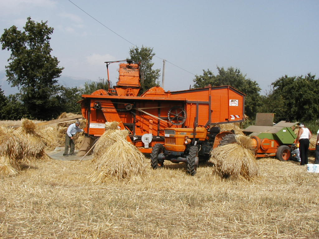 Threshing machine